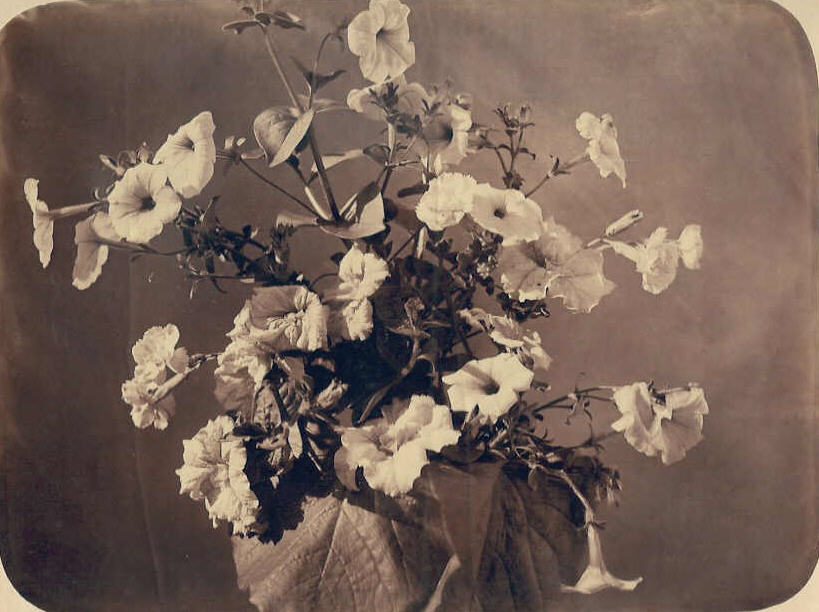 Albumen print 20.7 x 27.6 cm